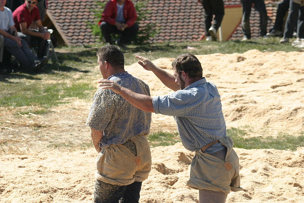 Schwinger brushing off saw dust after fight